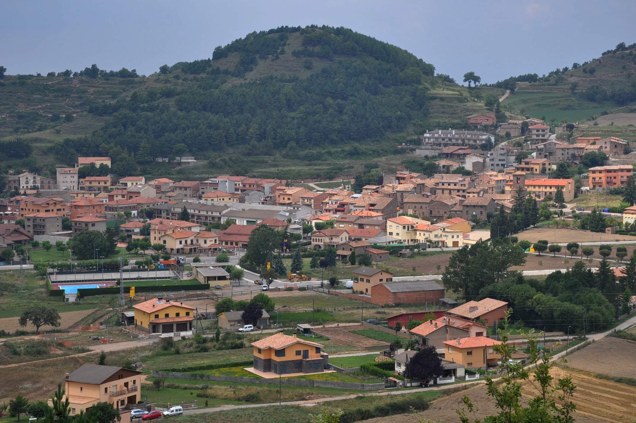 L'Estany, a village in the Comarca of Bages, Catalonia, Spain.